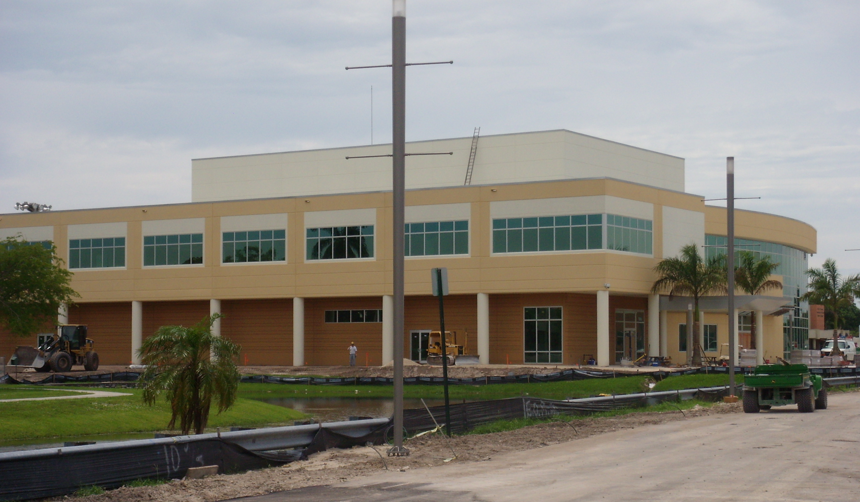 New USchool